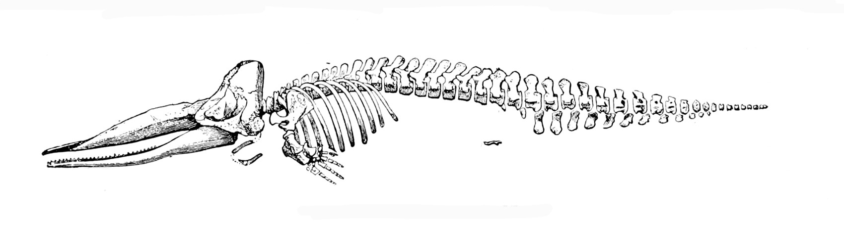 Skeleton of a Sperm Whale